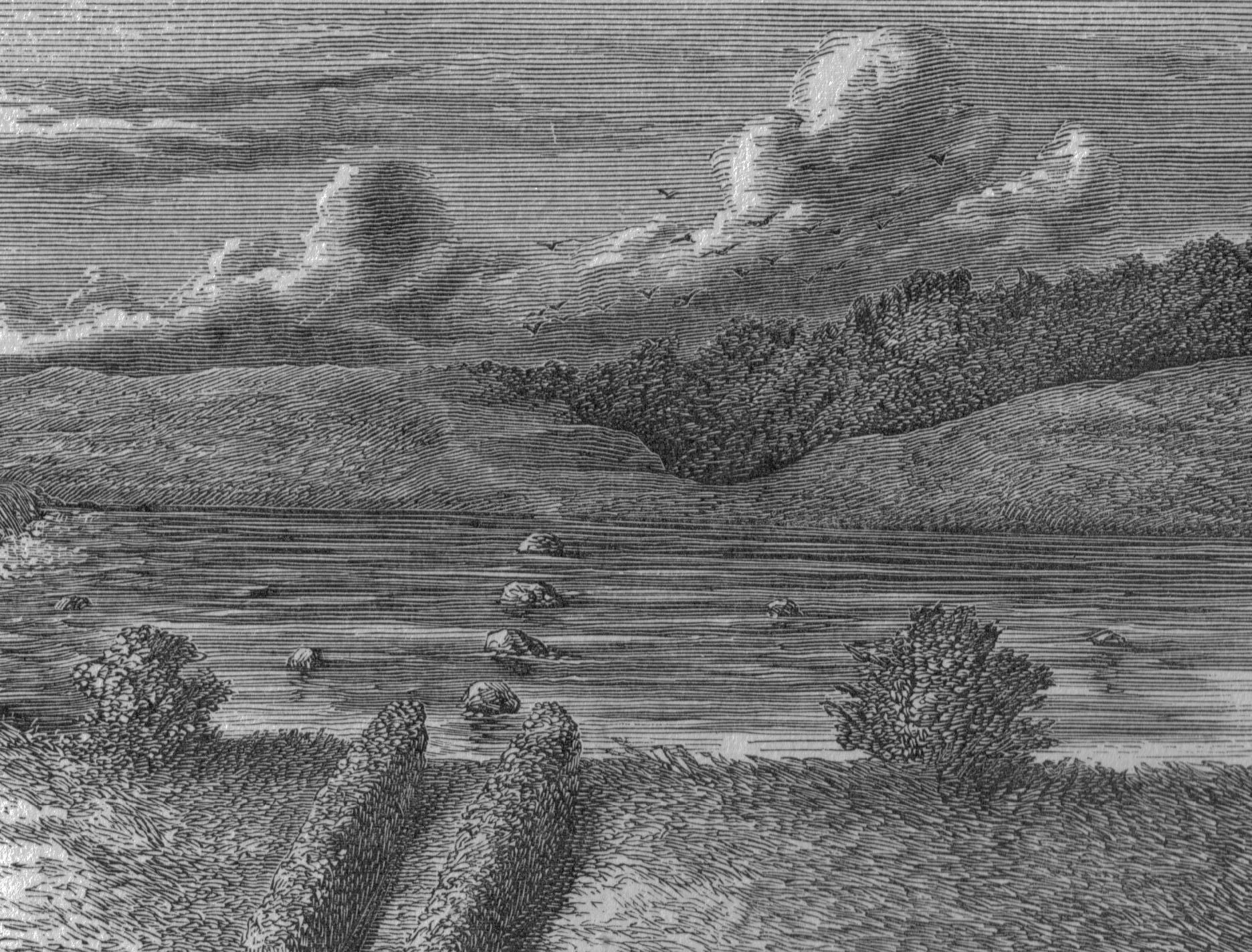 Struthers Steps on the River Irvine in a 19th-century etching, near Crookedholme in Ayrshire, Scotland.